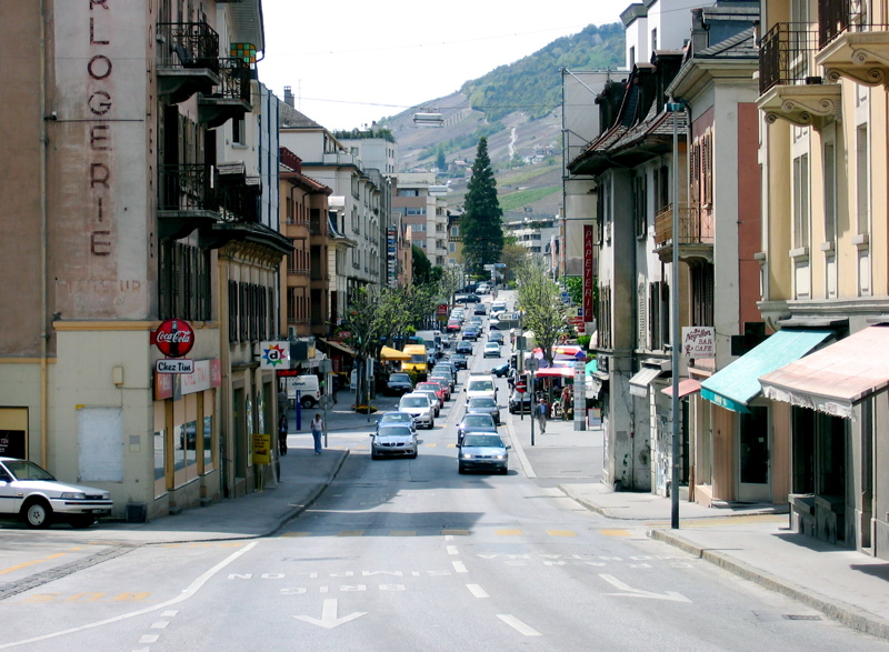 Avenue General Guisan, a main street in Sierre, Valais, Switzerland.